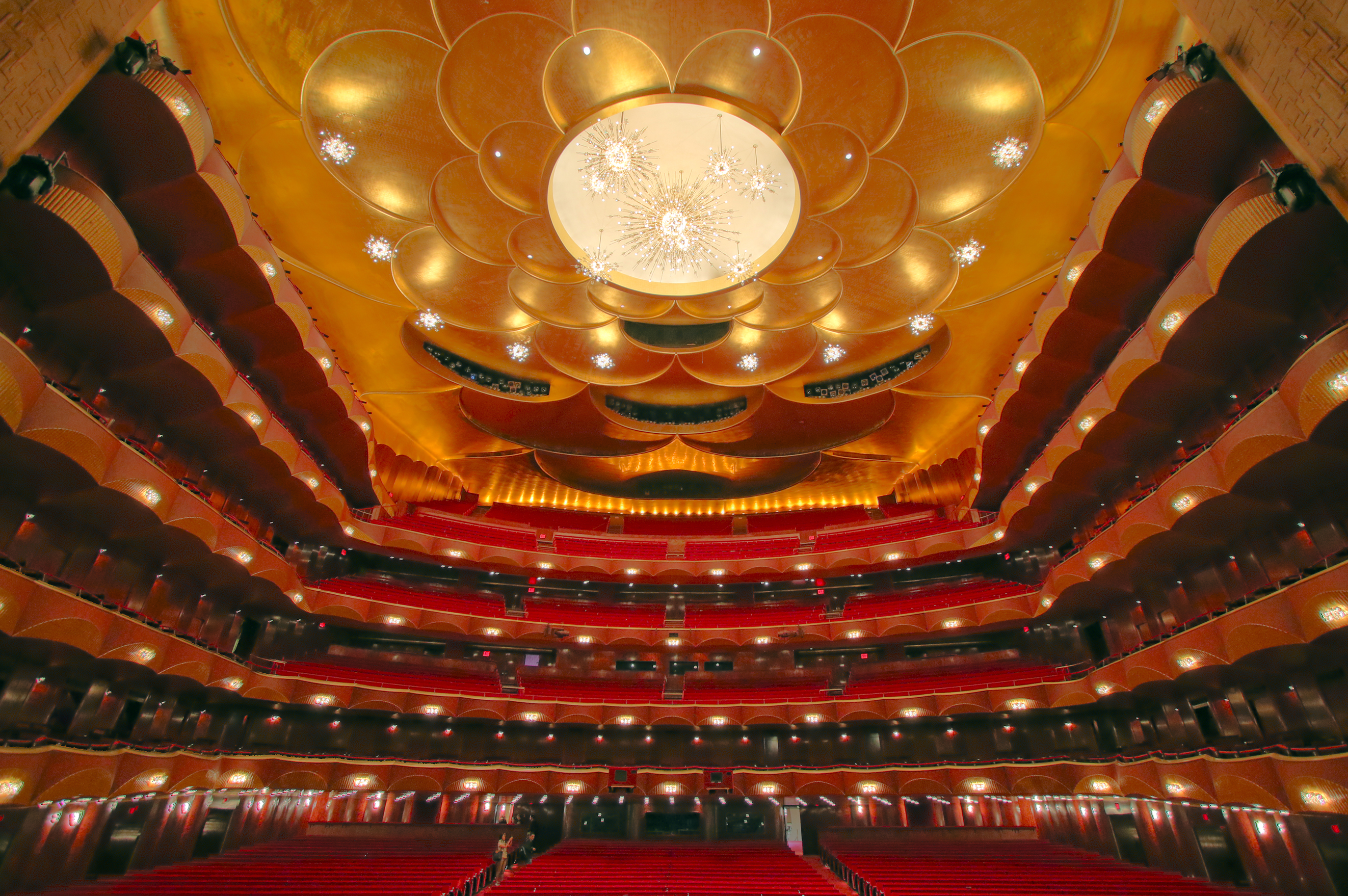 Site: Metropolitain Opera House